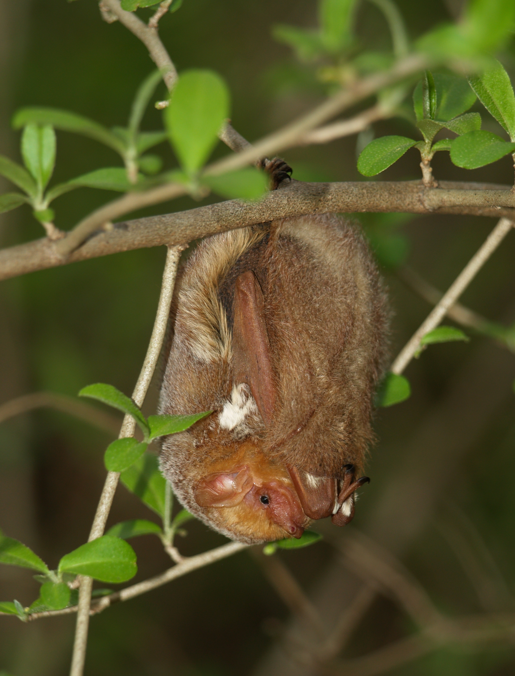 Eastern Red Bat (Lasiurus borealis), roosting at "Griffy Lake", Bloomington, IN.